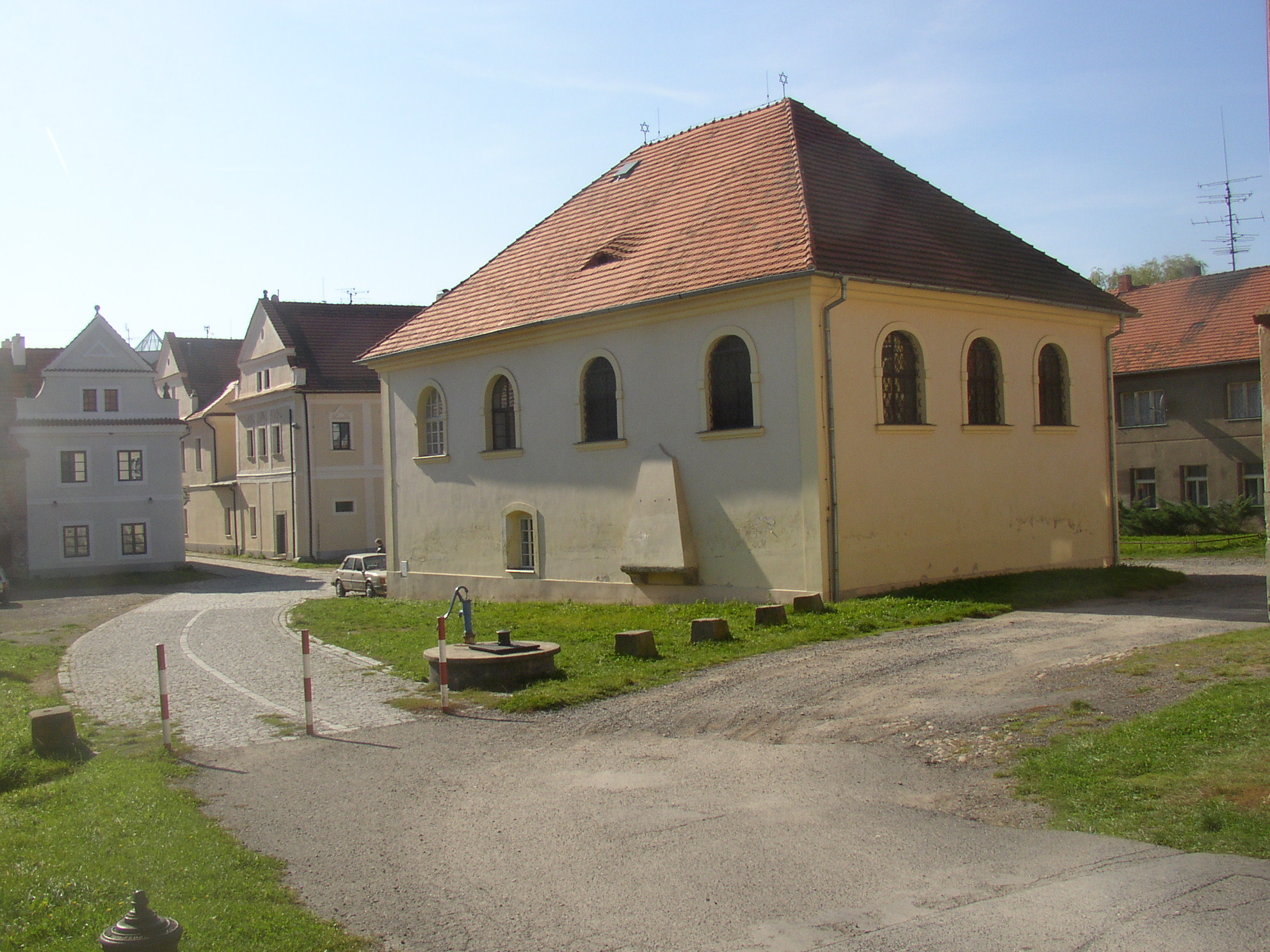 Synagogue at Lokšany (an 18th century Jewish ghetto) in Březnice, Příbram District, Czech Republic. A view from northeast.